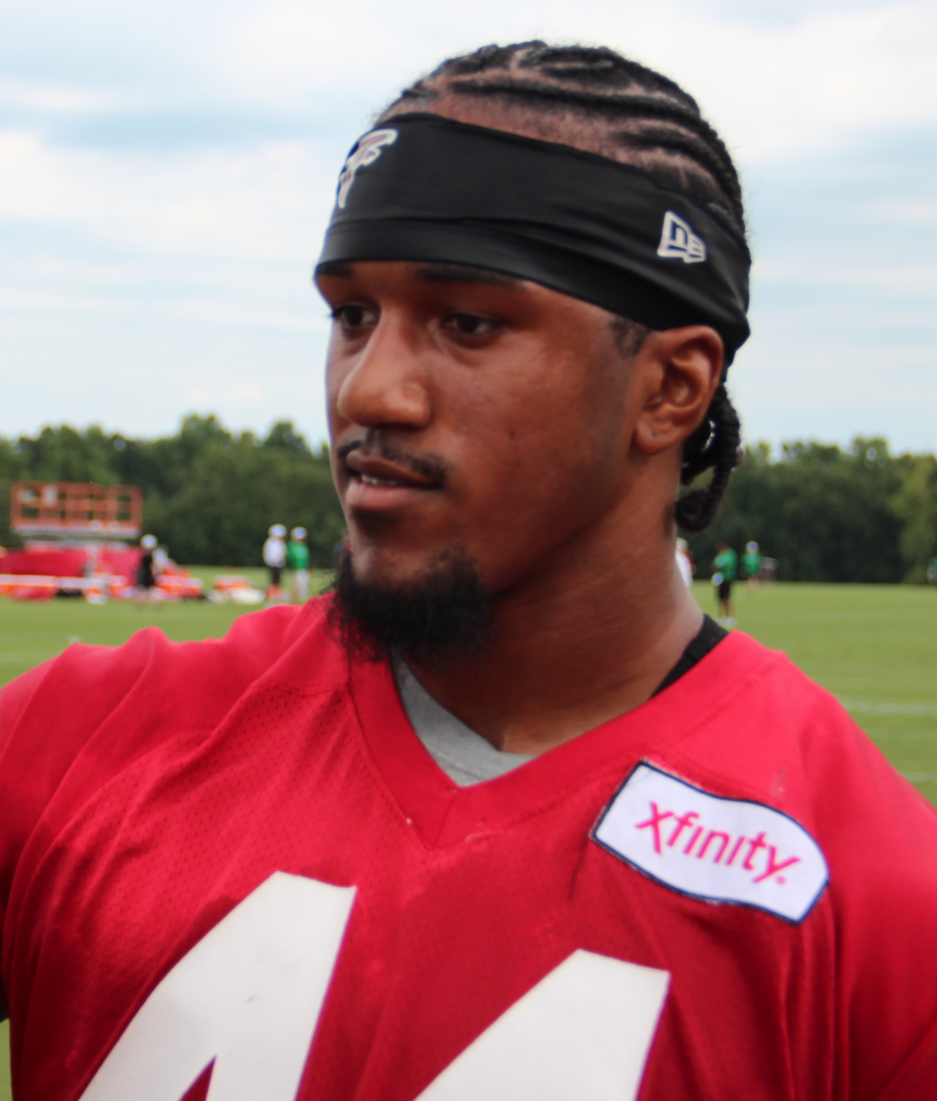 Vic Beasley at Falcons training camp, 2015